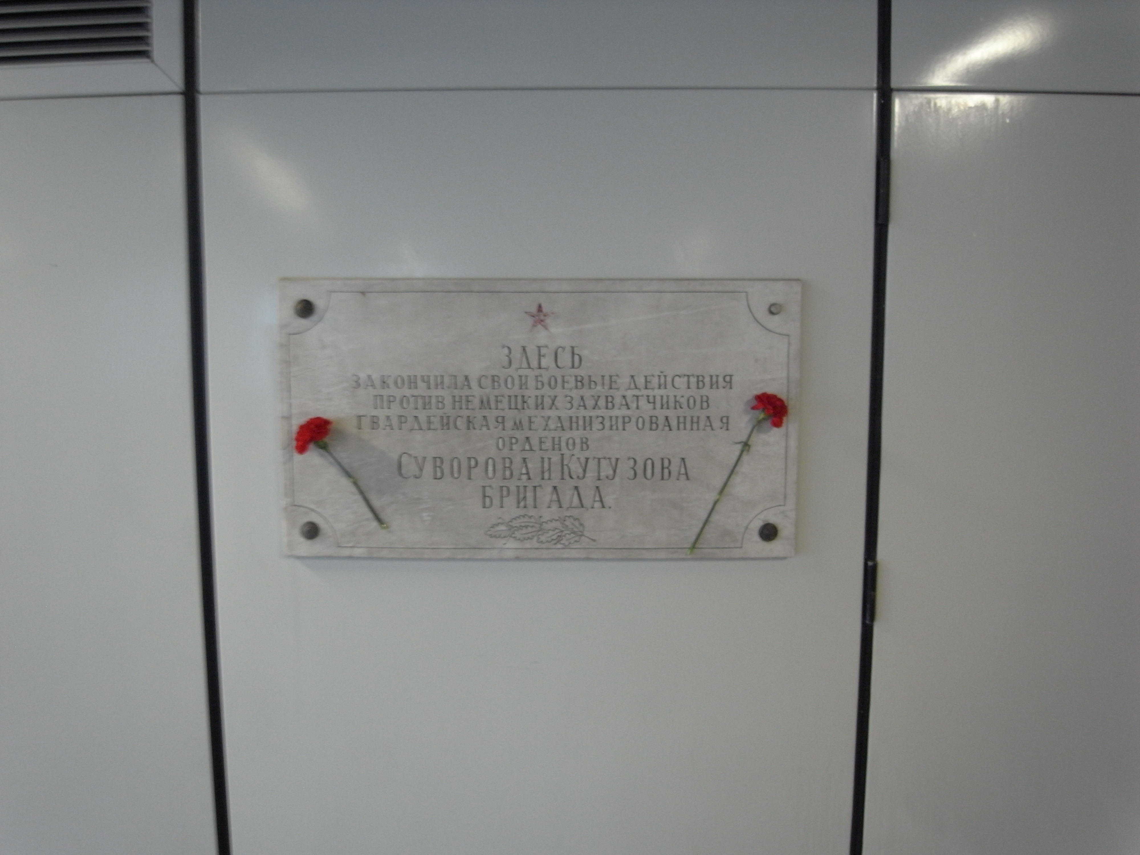 Memorial tablet in honour of one of the Soviet units that took part in the liberation of Vienna in 1945. Is mounted at the station "Kaisermuellen-VIC" of the first line of Viennese metro.